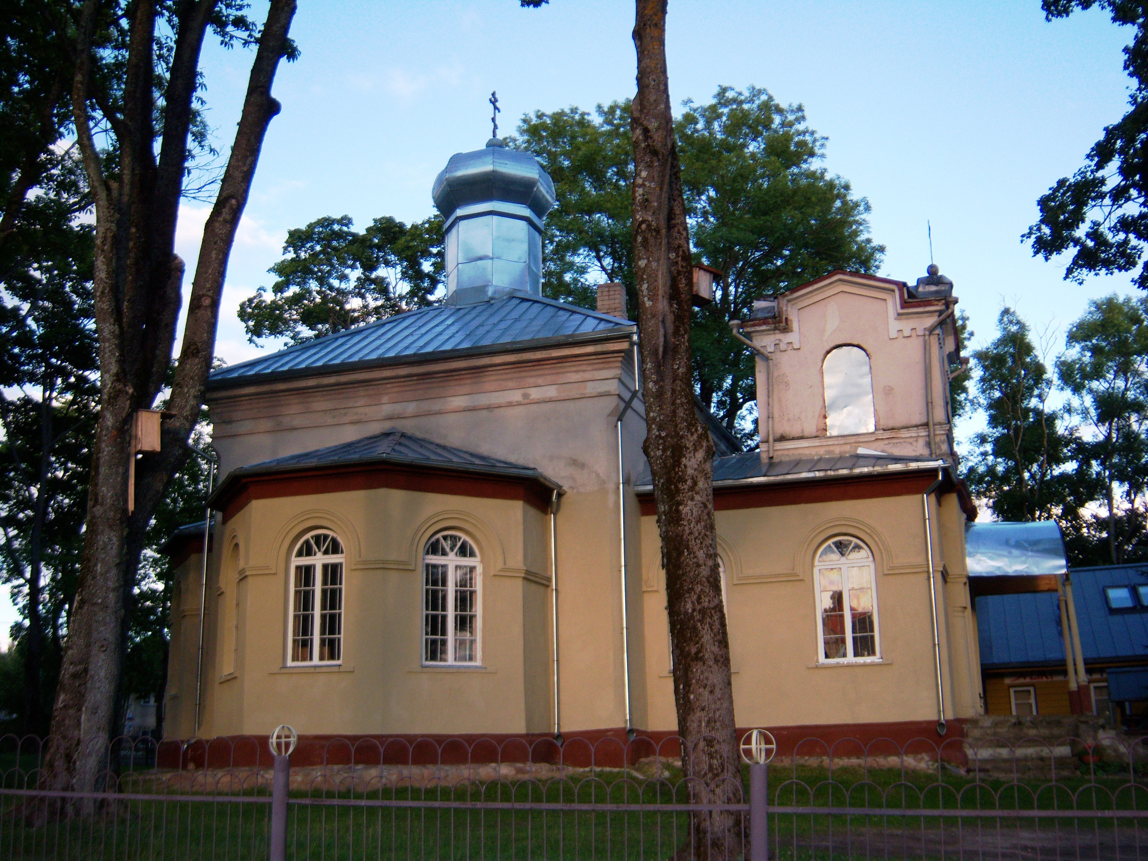 Anykščiai Orthodox Church, Lithuania